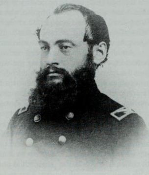 Civil War Union Brevet Brigadier General. He served in the Civil War first as a Captain with the 1st Illinois Light Artillery, then as Colonel and commander of the 59th United States Colored Infantry. He was brevetted Brigadier General, US Volunteers in February 28, 1865 in recognition of his war-time services.